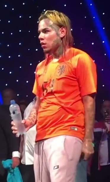 6ix9ine at a concert